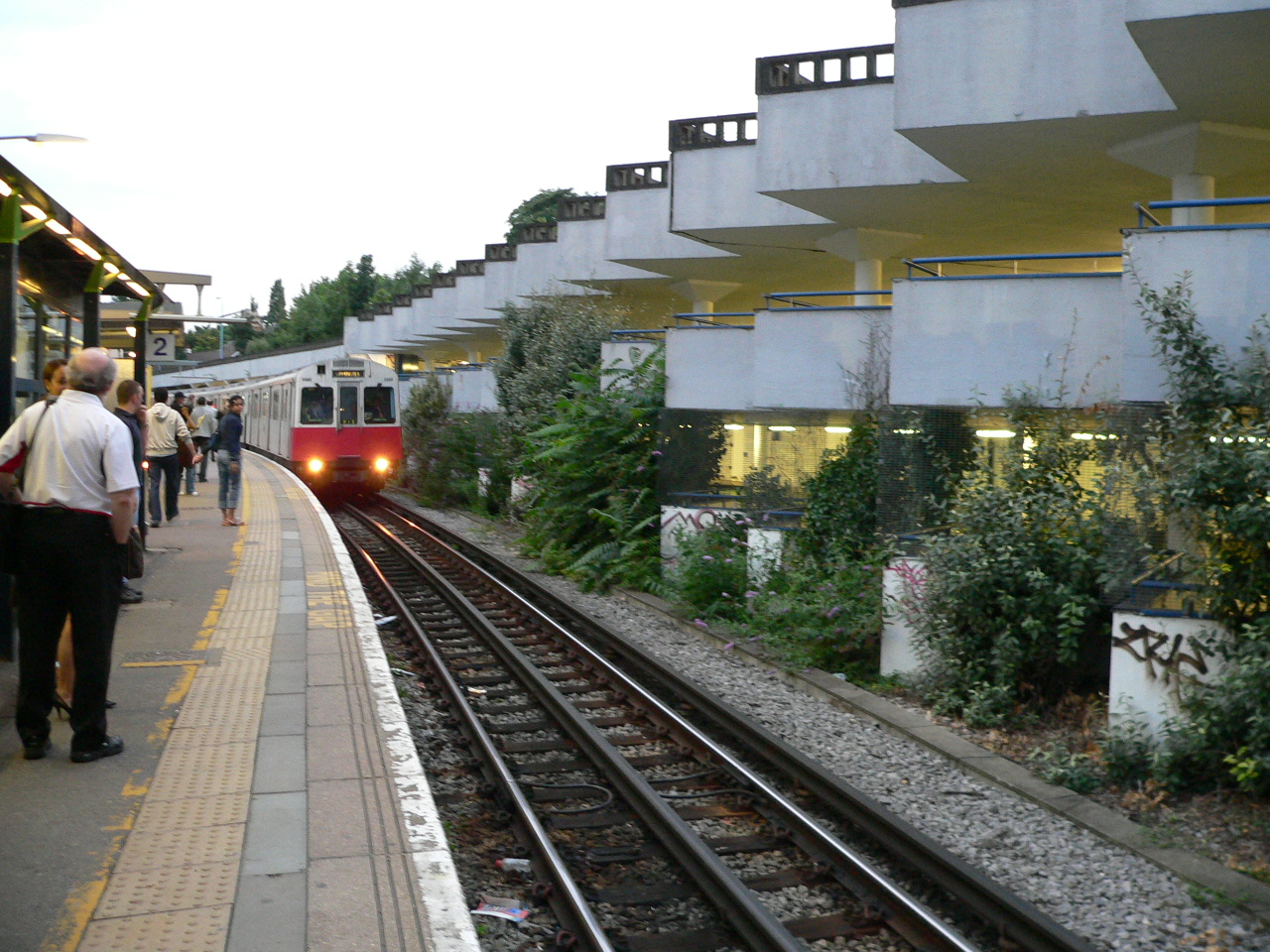 A northbound London Underground District Line 'D' Stock EMU train arriving into Gunnersbury tube station, 20:07 20 August 2005.